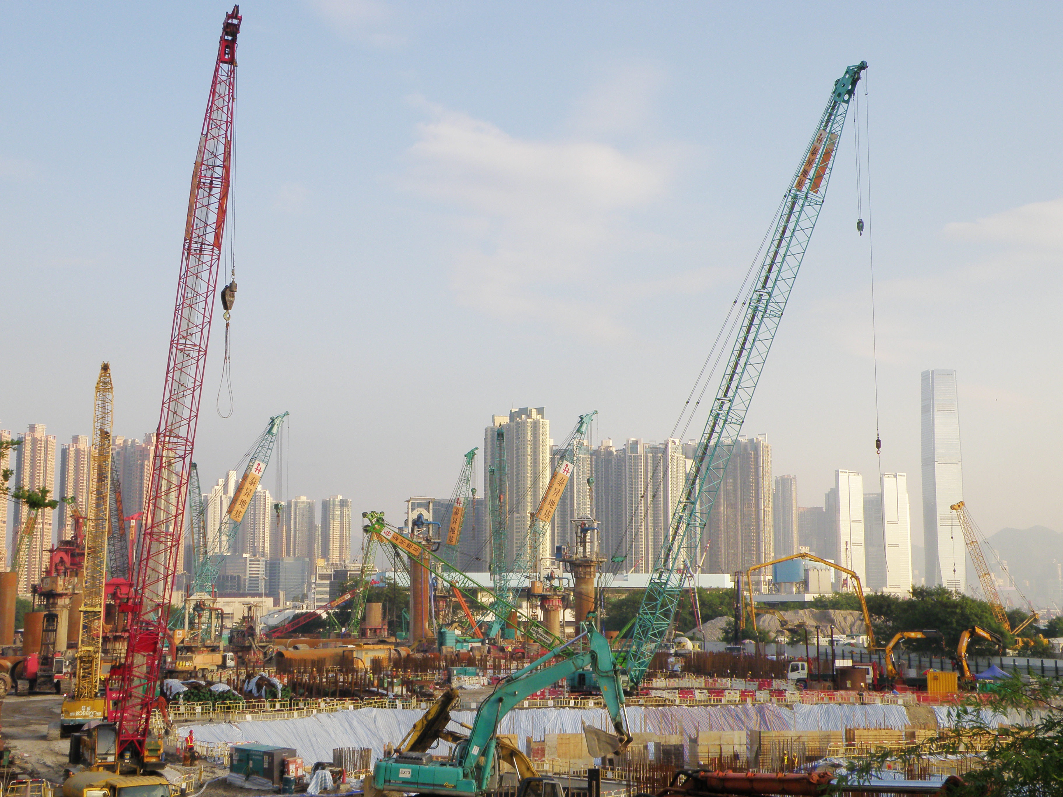 Hoi Lok Court in Cheung Sha Wan, Hong Kong.